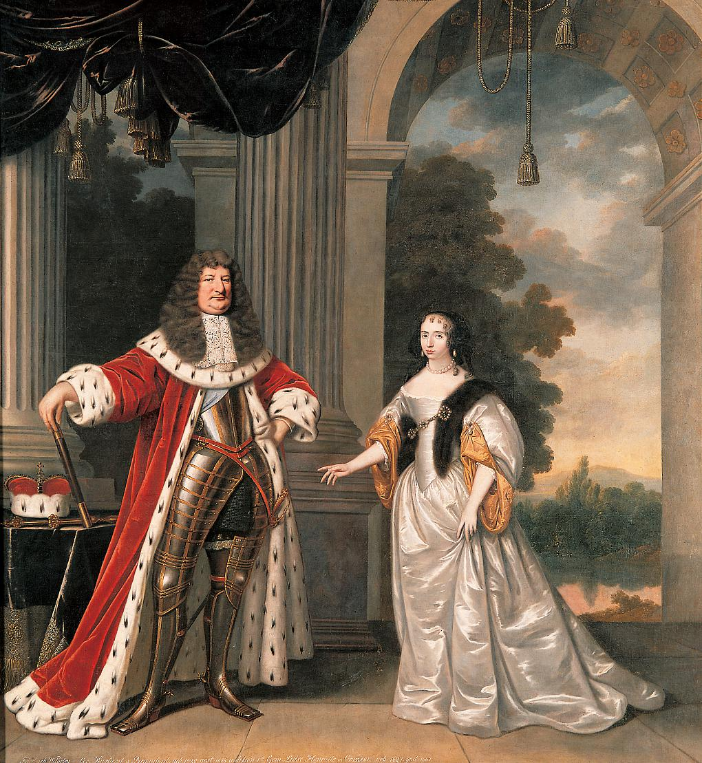 Frederick William, Elector of Brandenburg & Countess Louise Henriette of Nassau